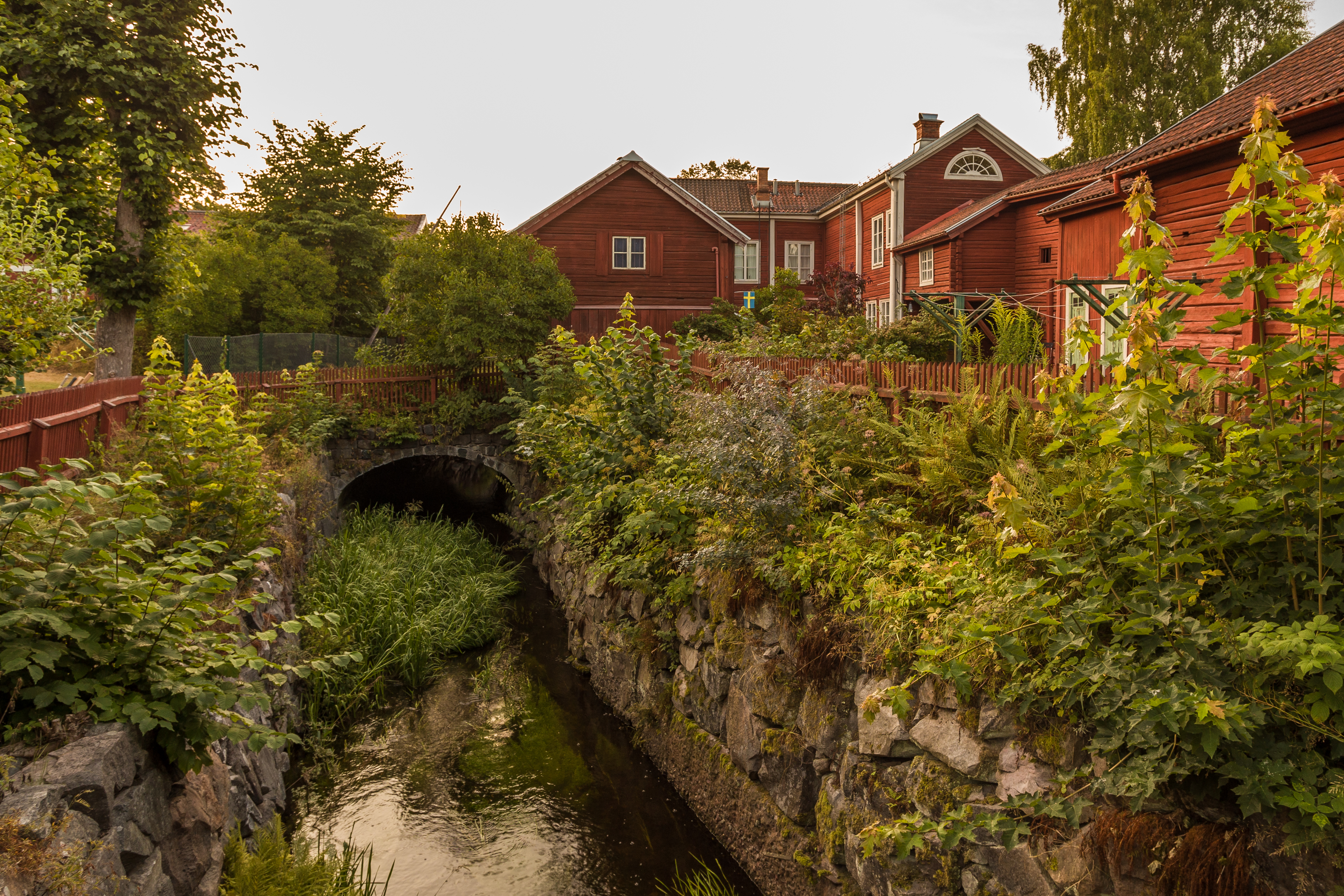 Böösgården, Avesta, Dalarna County, Sweden.